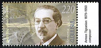 Armen Tigranian on a stamp of Armenia